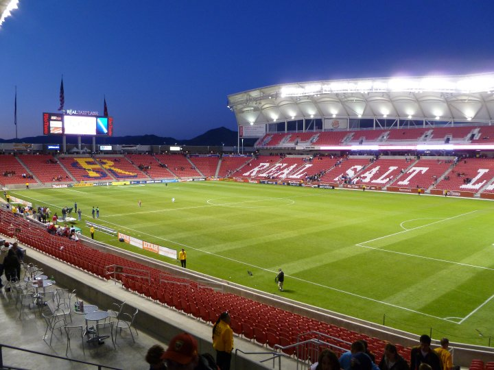 Rio Tinto Stadium home of Real Salt Lake is located in Sandy, UT